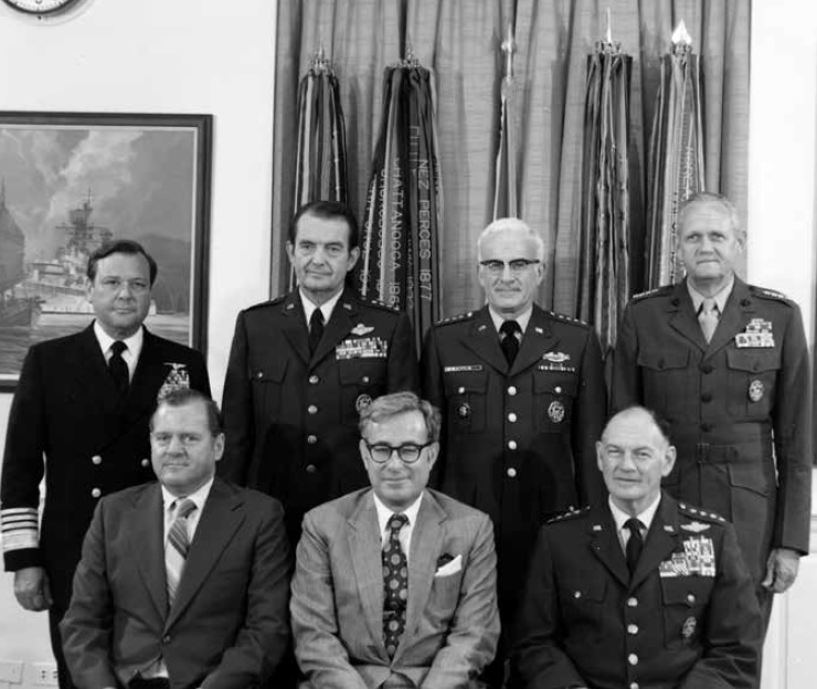 Secretary of Defense Harold Brown and Deputy Secretary of Defense Charles W. Duncan Jr with the Joint Chiefs of Staff member at the Pentagon. Front Row, From left to right are: Deputy Secretary of Defense Charles W. Duncan Jr, Secretary of Defense Harold Brown, Chairman of the Joint Chiefs of Staff Gen. George S. Brown, U.S. Air Force. Back Row From left to right are: U.S. Air Force Chief of Staff Gen. David C. Jones, U.S. Navy Chief of Naval Operations Adm. James M. Holloway III, U.S. Army Chief of Staff Gen. Bernard W. Rogers, U.S. Marine Corps Commandant Gen. Louis H. Wilson Jr.